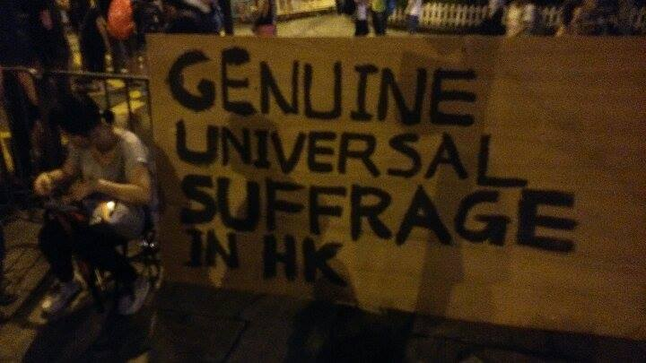 Banner in Hong Kong Protest, advocating genuine universal suffrage.